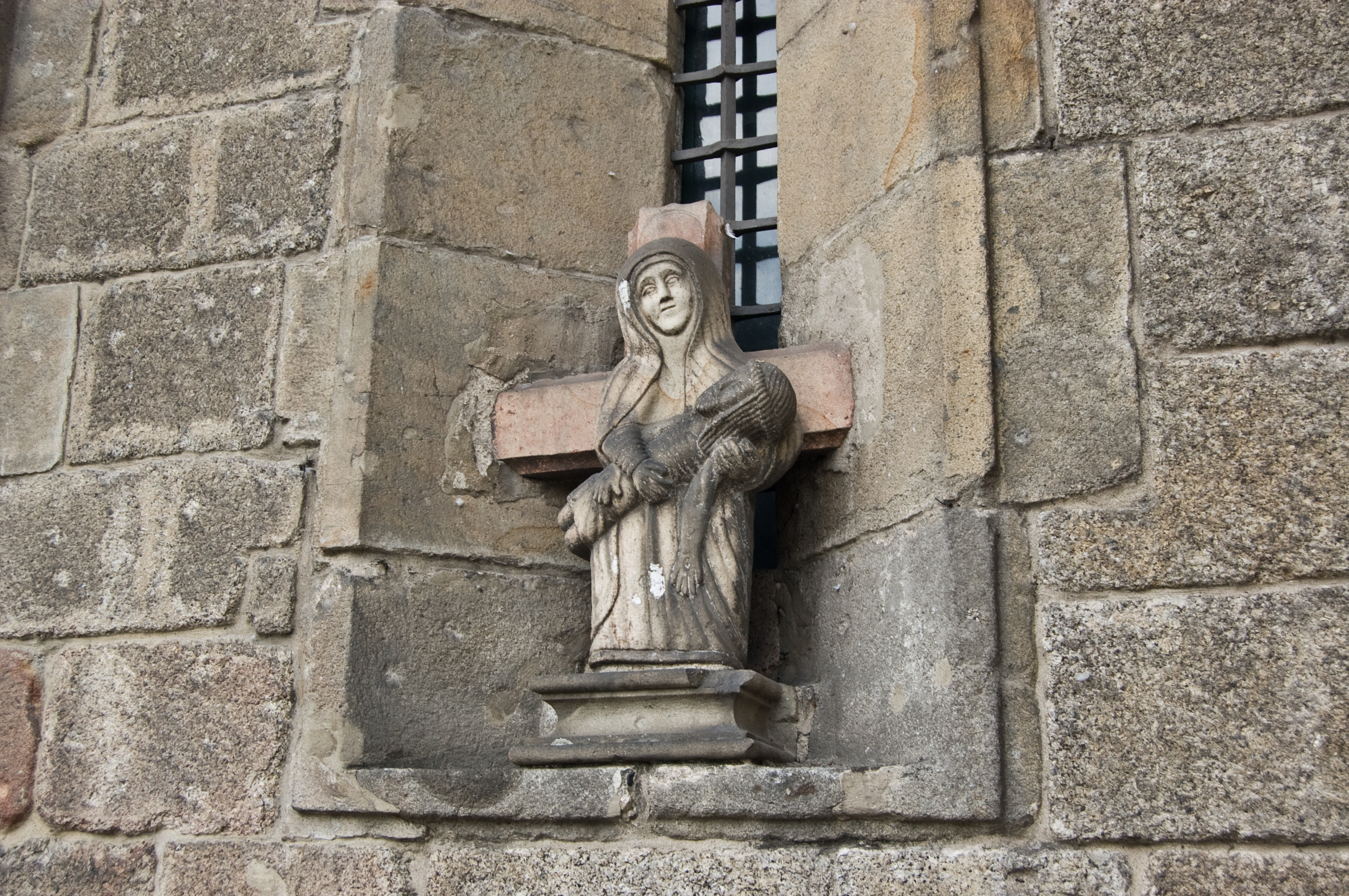 Our Lady of the Bridge (Nossa Senhora da Ponte) in Amarante, Portugal